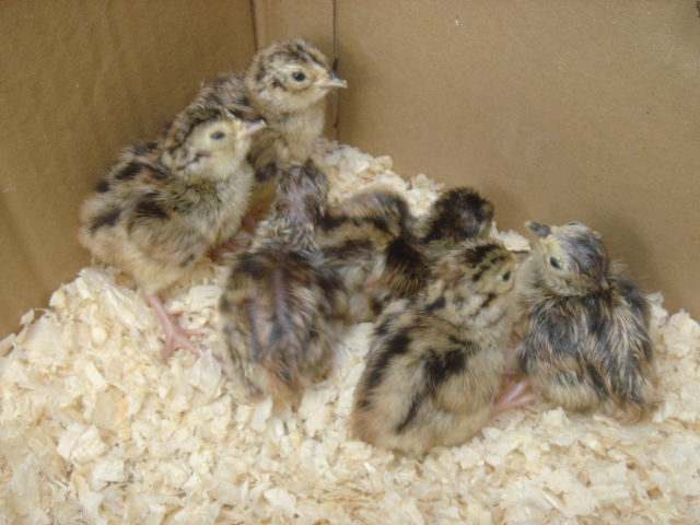 Common Pheasant chicks, approx 1 hour old. I took this photo myself.